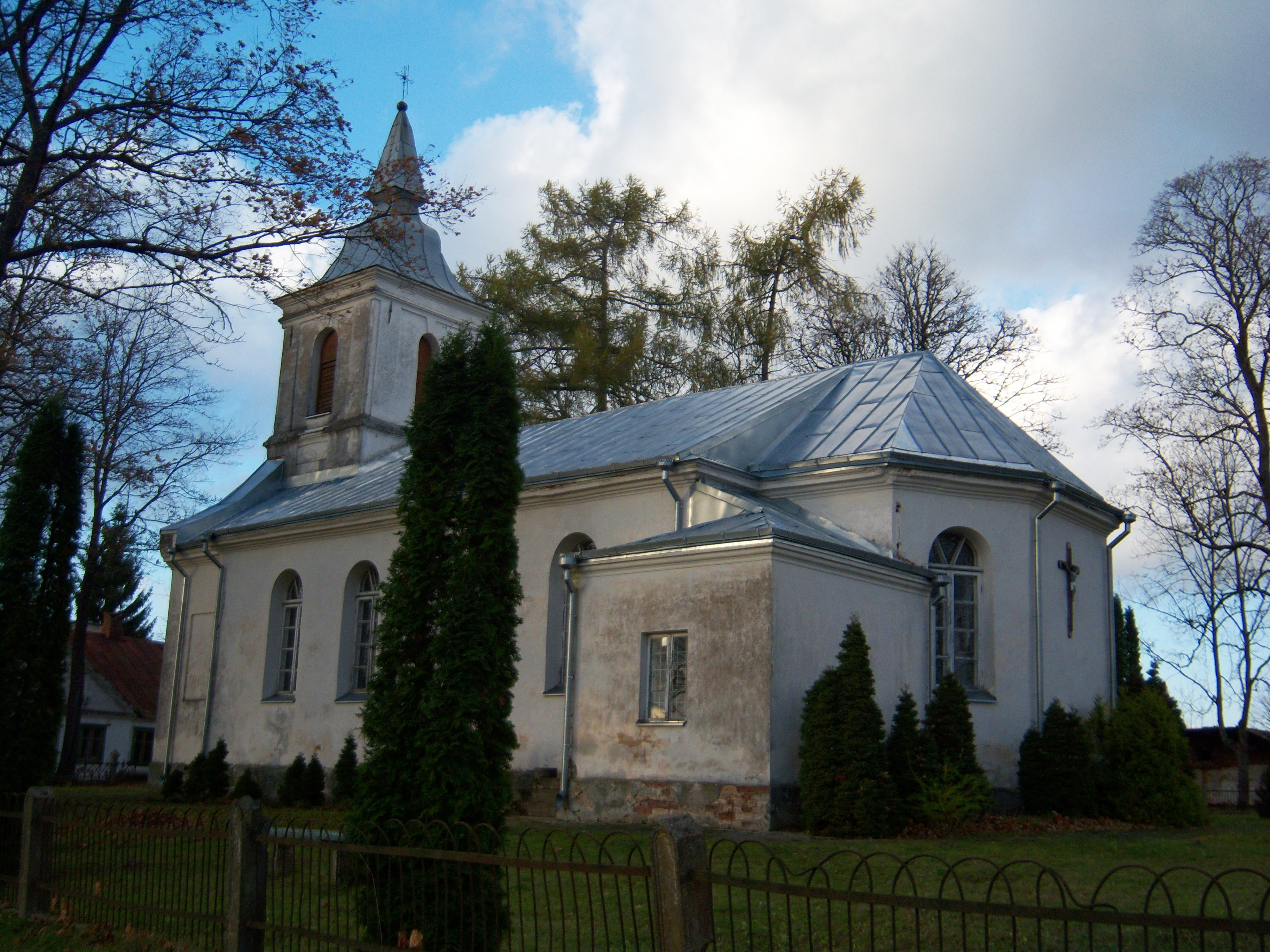 Roman Catholic Church in Surdegis, Anykščiai District, Lithuania